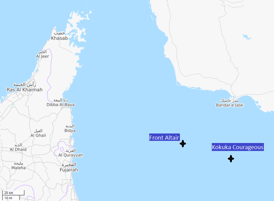 Map shows Gulf of Oman with approx. position of two oil tankers attacked there on June 13, 2019.